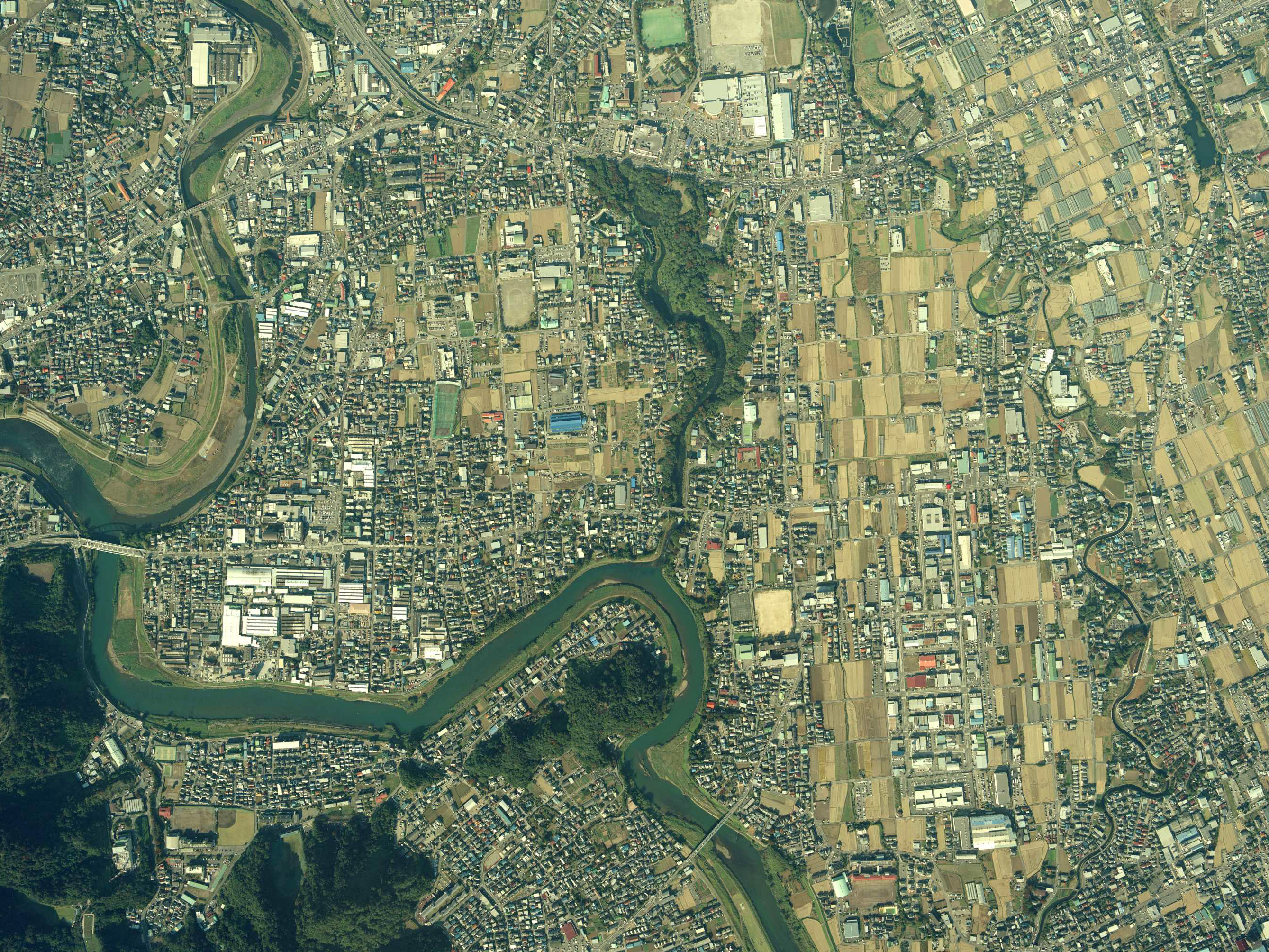 Kakita River, Shimizu, Shizuoka Prefecture, Honshu, Japan.